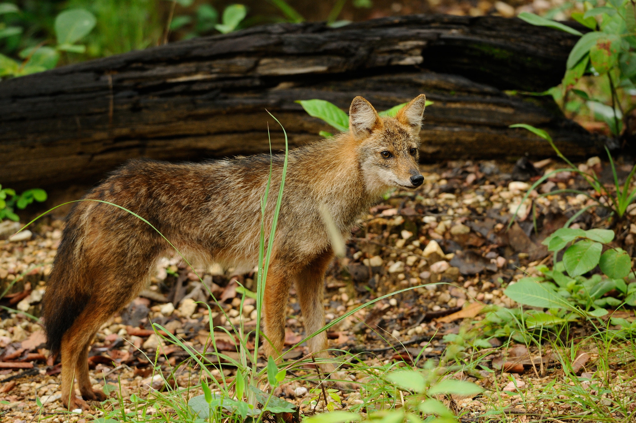 Golden Jackal (Canis aureus) in Huai Kha Khaeng Wildlife Sanctuary